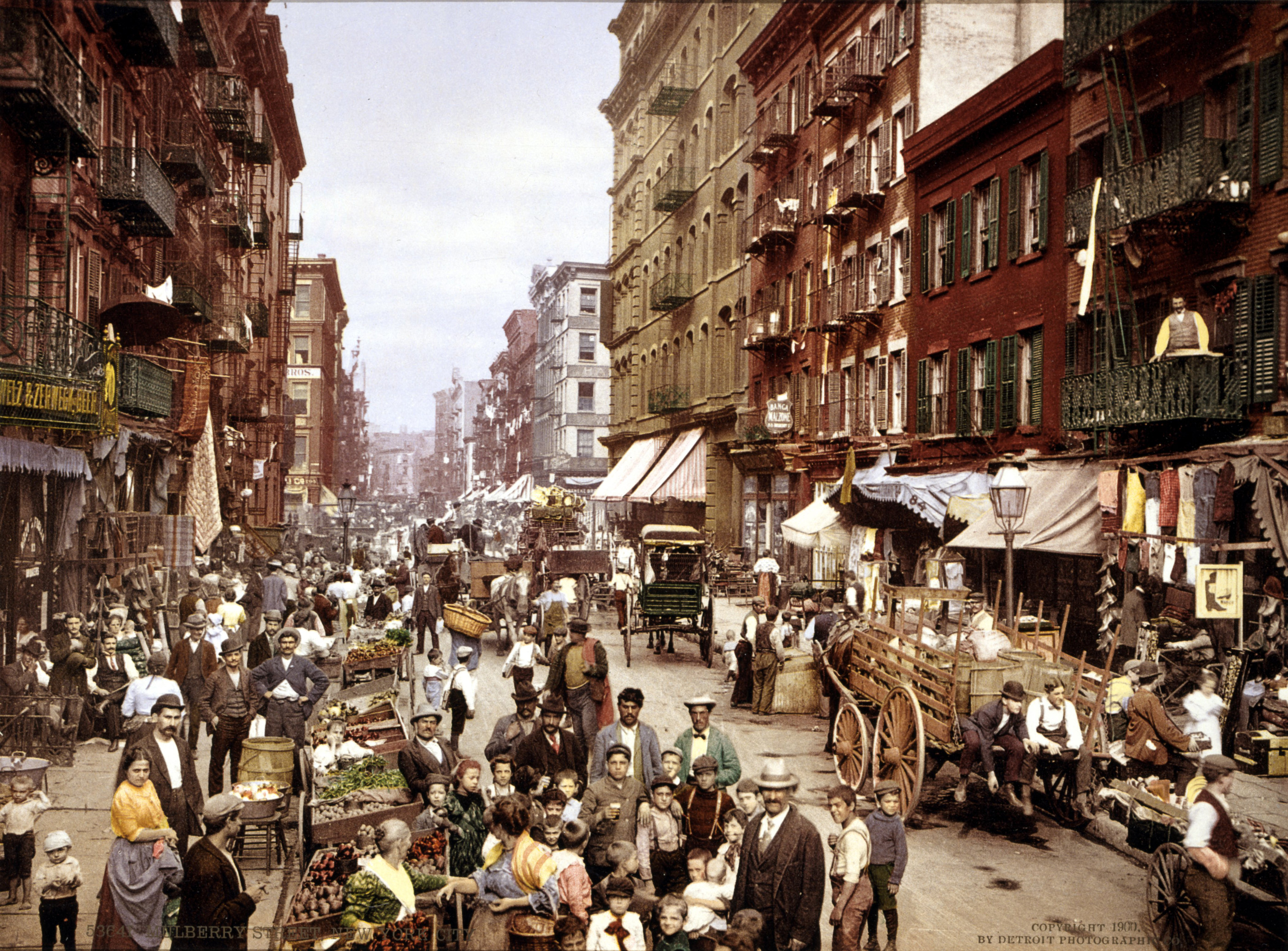 Mulberry Street NYC ca.1900. edit of Image:Mulberry Street NYC c1900 LOC 3g04637u.jpg by me user debivort. 1px median filtered, and then downsampled.